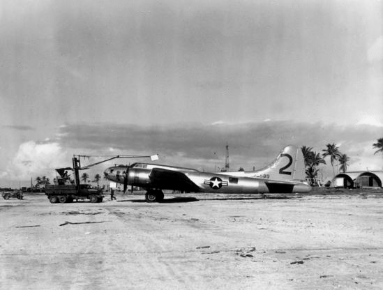 Filters are being removed from a U.S. Air Force Boeing B-17 drone after a flight through the radioactive cloud of one of the explosions of an atom bomb in the experimental tests at Eniwetok.